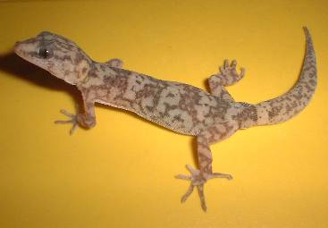 Picture of a Phyllodactylus angustidigitus (a gecko). Imported from en: Original description: I took this picture and release it. Picture taken at Laguna Grande, Paracas National Reserve, Departamento Ica, Peru, in November 2003.